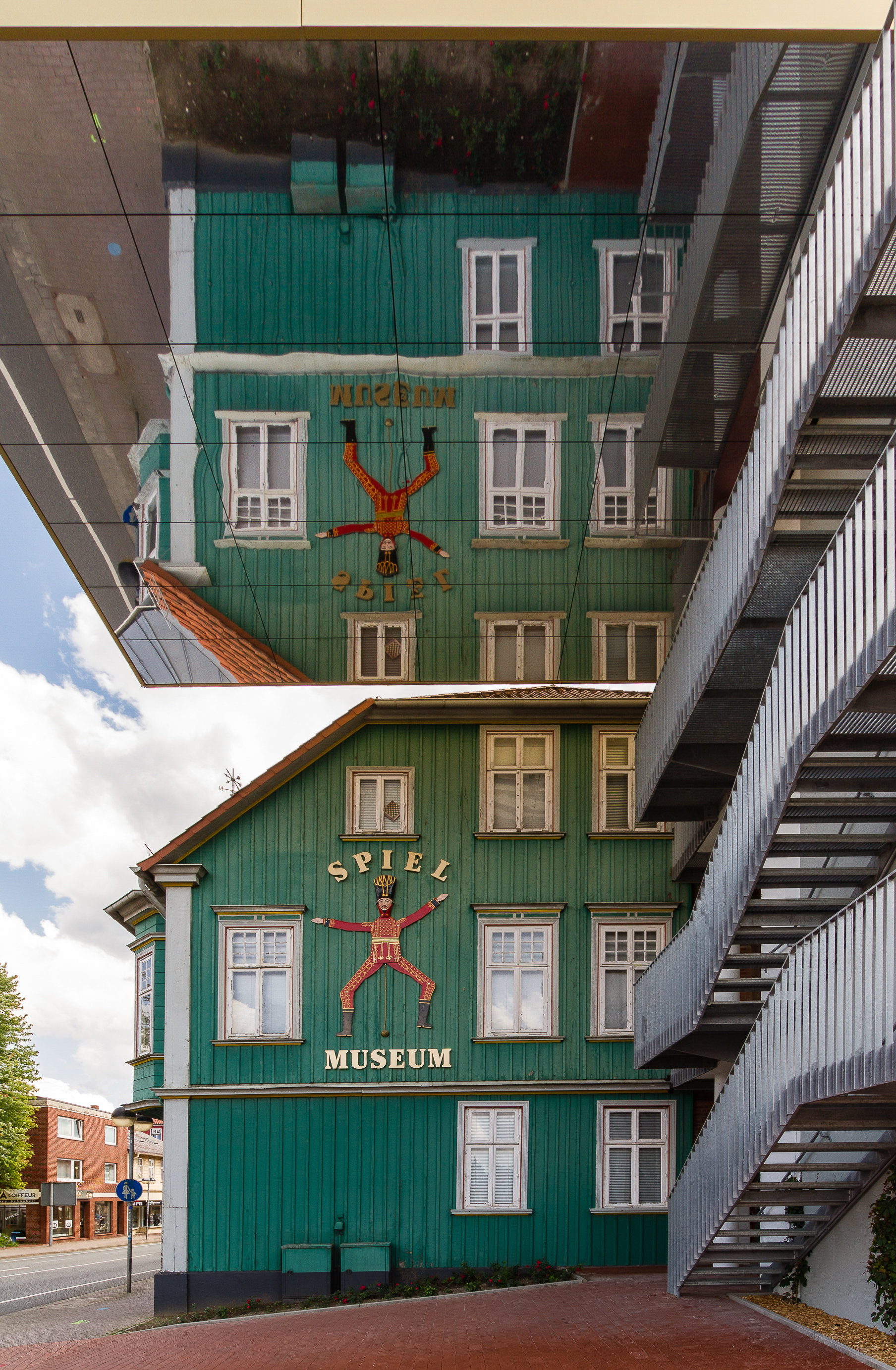 Description: Reflection on the mirrored lower surface of the so-called Flying Classroom at the Soltau Toy Museum. Location: Poststraße House number: 7 Place: Soltau, Heath district, Lower Saxony, Federal Republic of Germany